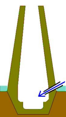 Illustrates the application of hot blast into bloomery (cf. blast furnace)